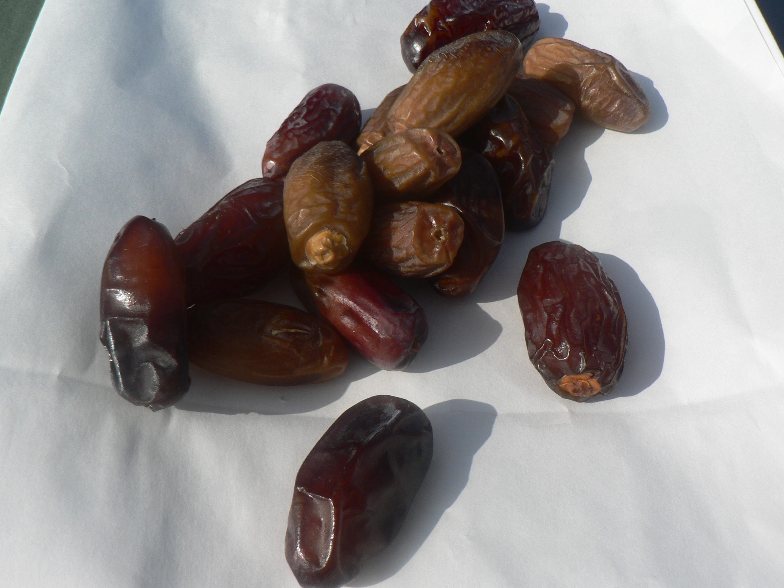 Dried dates